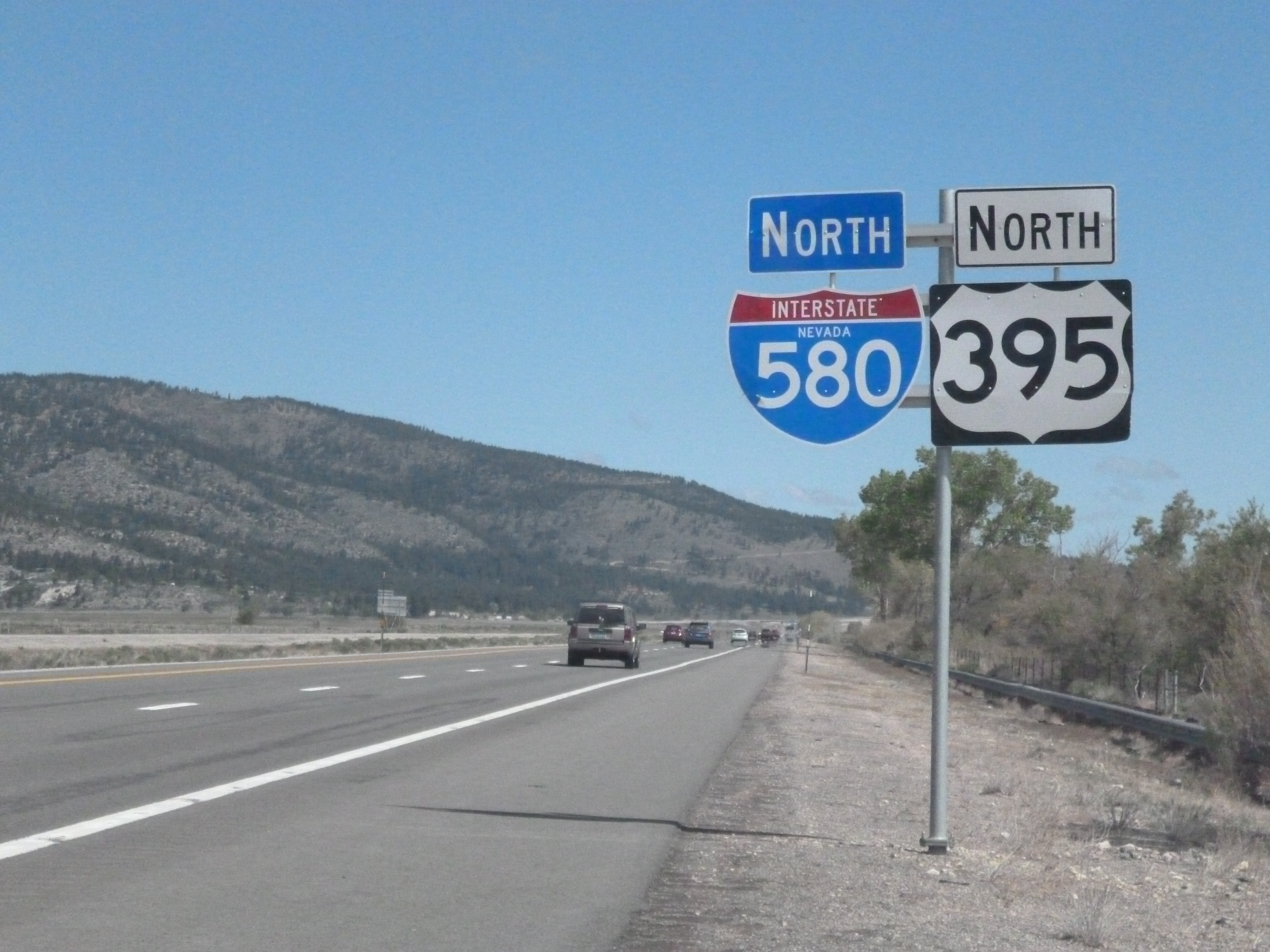 Interstate 580 & US 395 Marker near Carson City, Nevada.